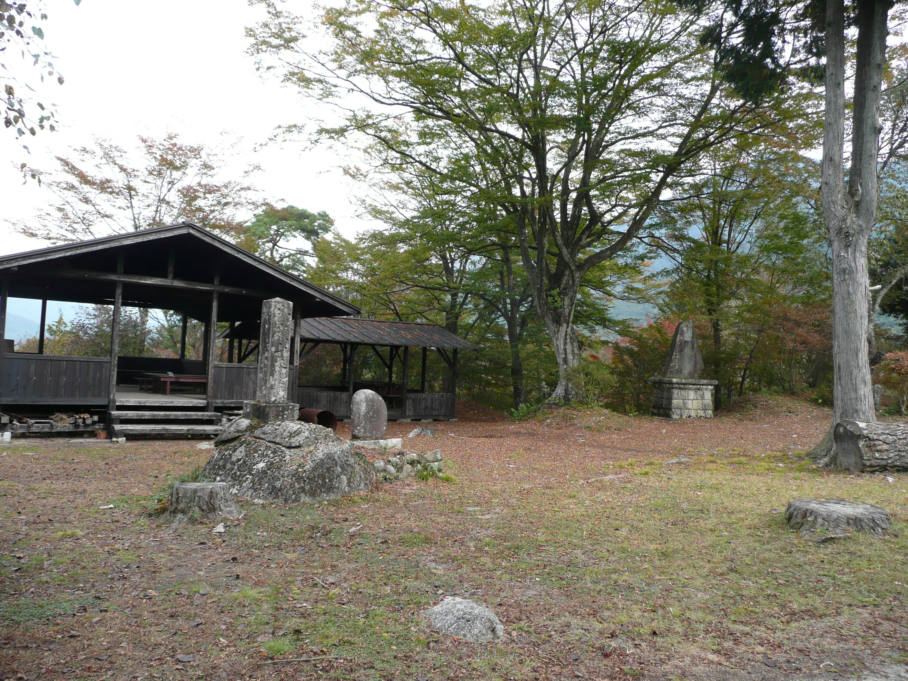 妻籠城の本丸跡